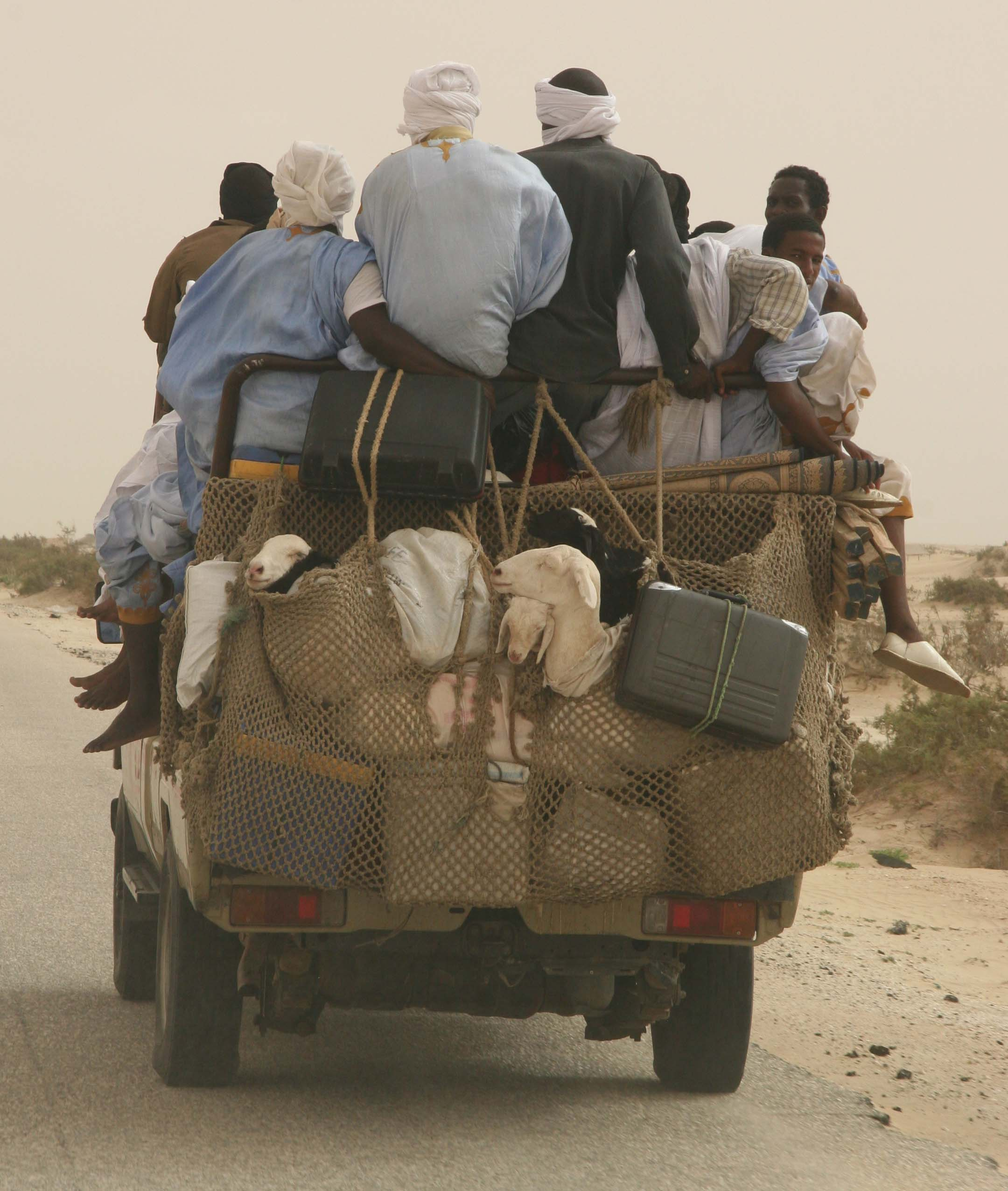 Smart transportation in West Africa. Always make sure that you carry enough food with you when travelling the dessert...